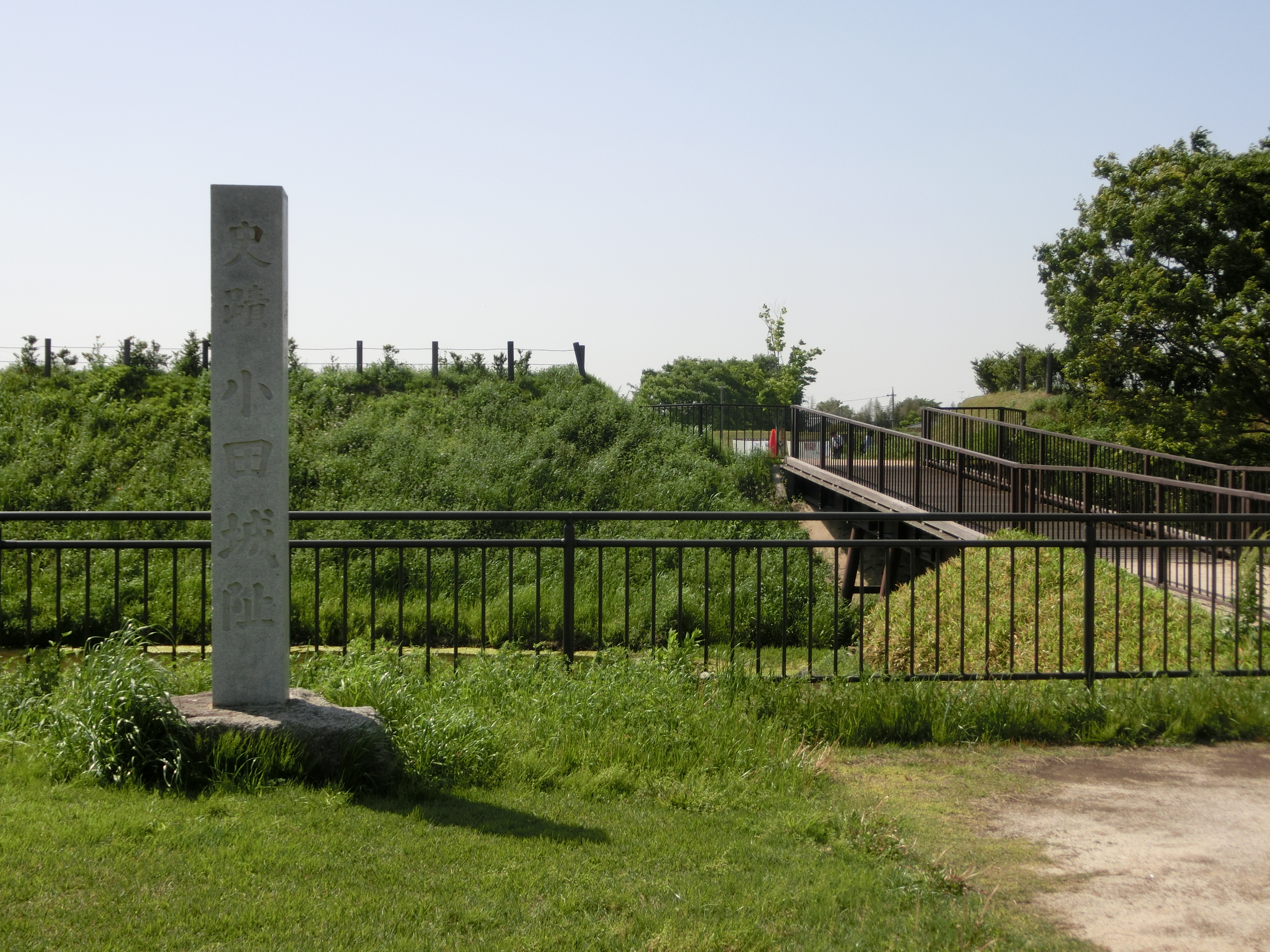 Oda Castle